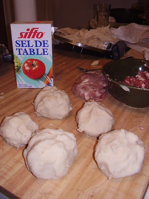 Poutines râpées, traditional Acadian dish. Photo was taken before actually boiling them. They are uncooked.